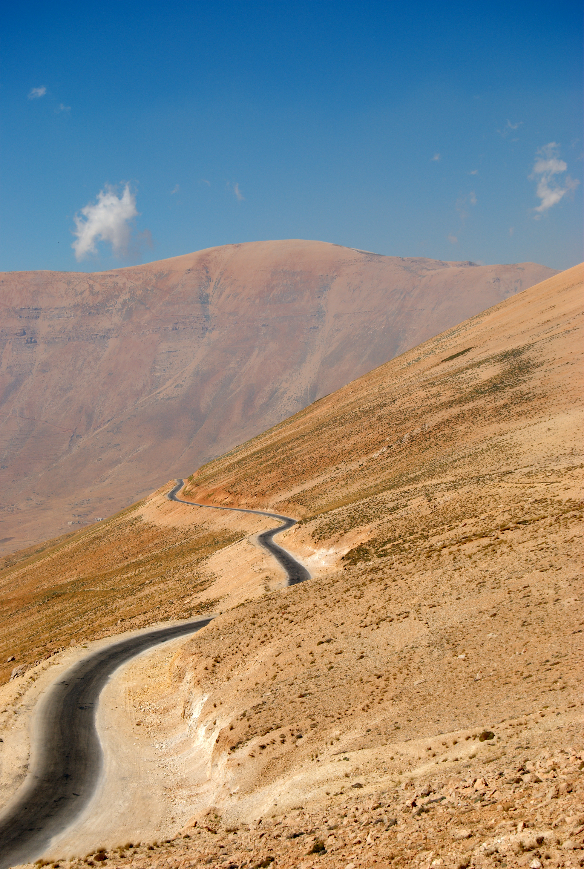 Mountains in Lebanon, near the middle east's highest peak. Photo from the highest point on the road from Baalbek to Bcharre.